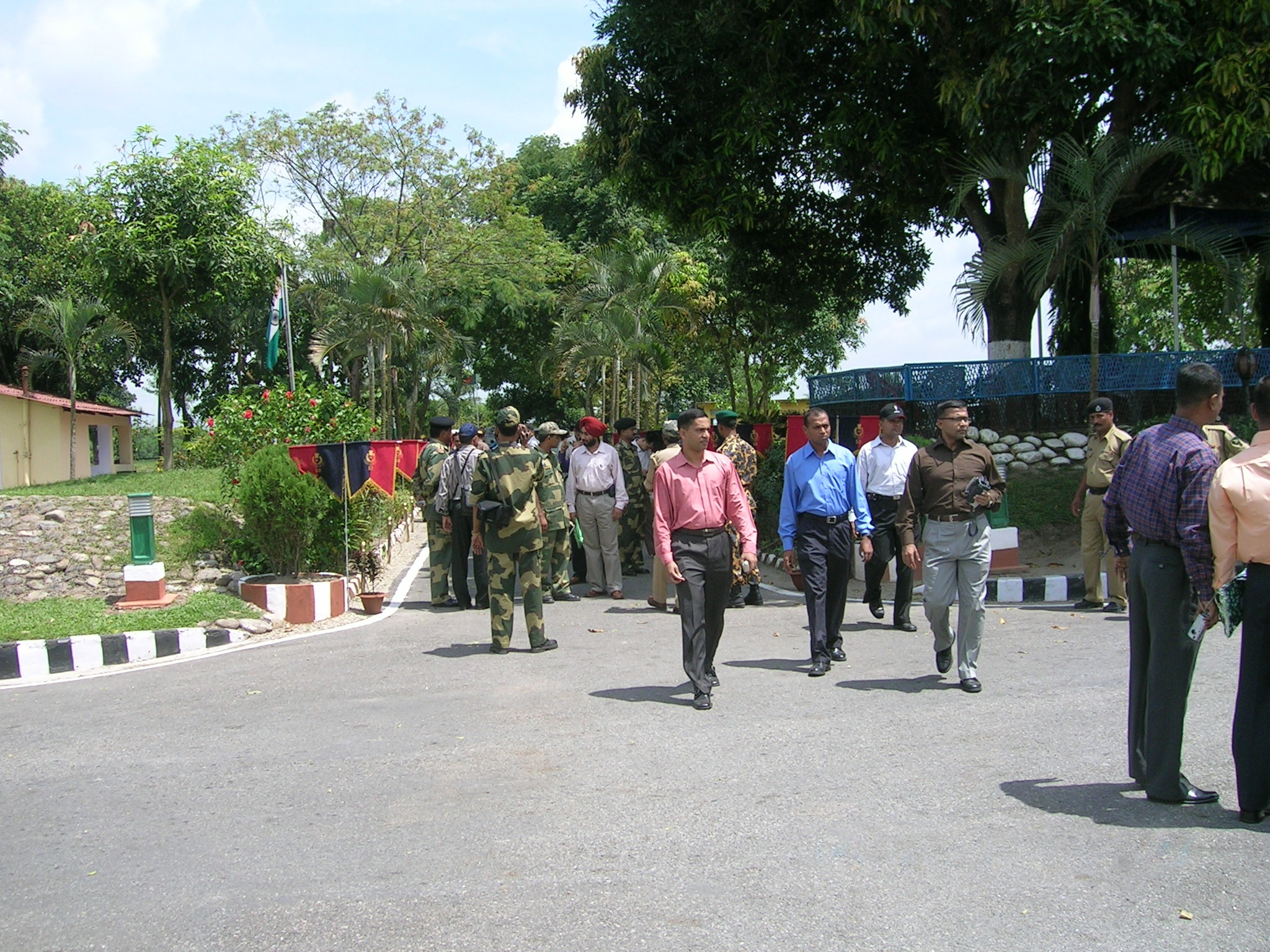 Tin Bigha Corridor. The ‘Tin Bigha Corridor’ connceting the Dahgram-Angarpota enclave with mainland Bangladesh.